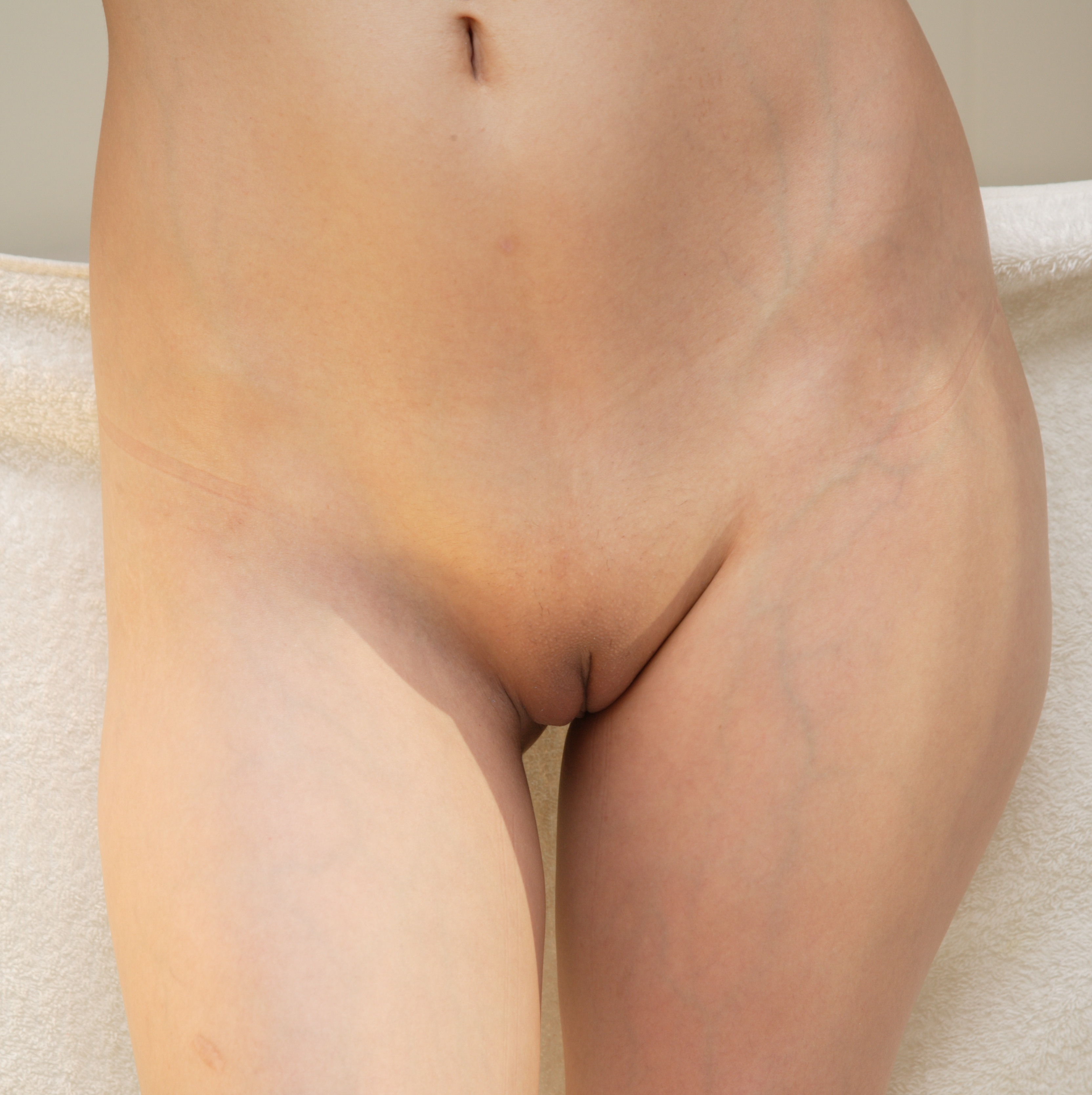 Photo by Peter Klashorst from